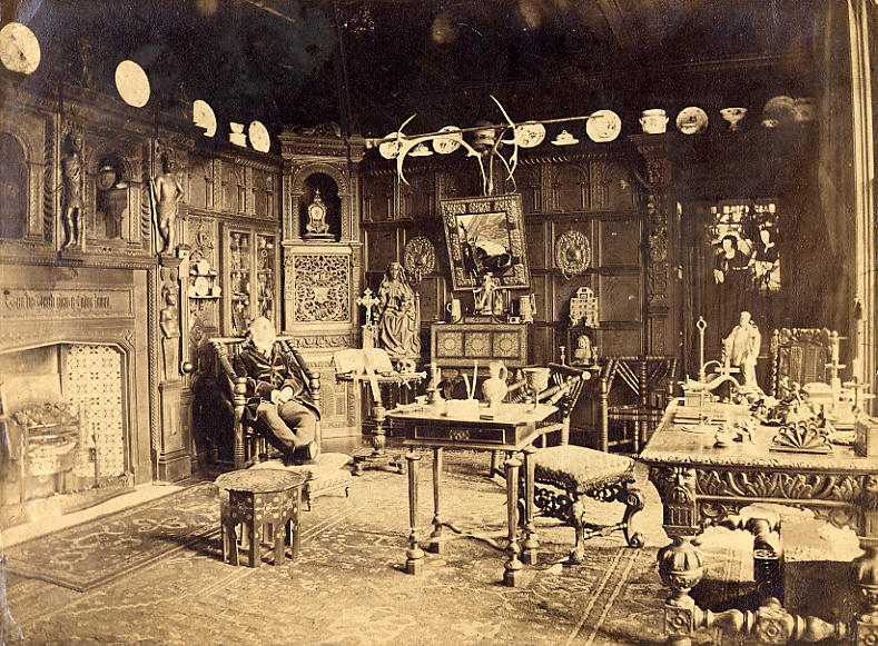 JEW Rolls, the grandfather of Charles Stewart Rolls, co-founder of Rolls- Royce, built the early phases of the Hendre mansion near Monmouth. The Oak Room was his study, decorated with carved panelling and collector's items, a typical Victorian gentleman's retreat.Monmouth Museum ref.no.R299